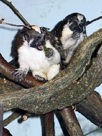 Description: Geoffroy's Tamarin - Source: own work - Location: Bronx Zoo, New York - Author: self, User:Stavenn